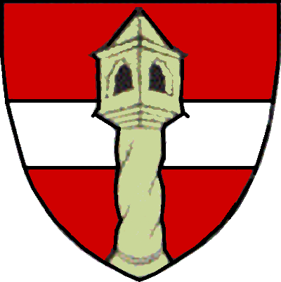 Coat of arms of Fischamend, Lower Austria